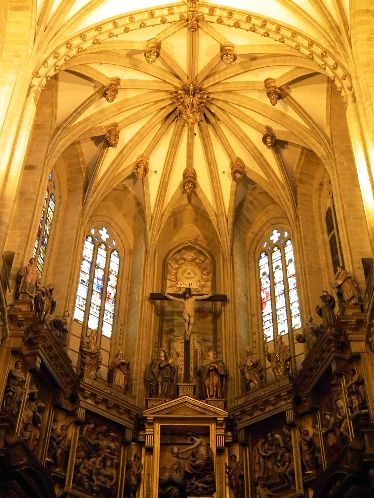 Details on the Main Altar of the Catedral de Santa María, Astorga, León, Spain